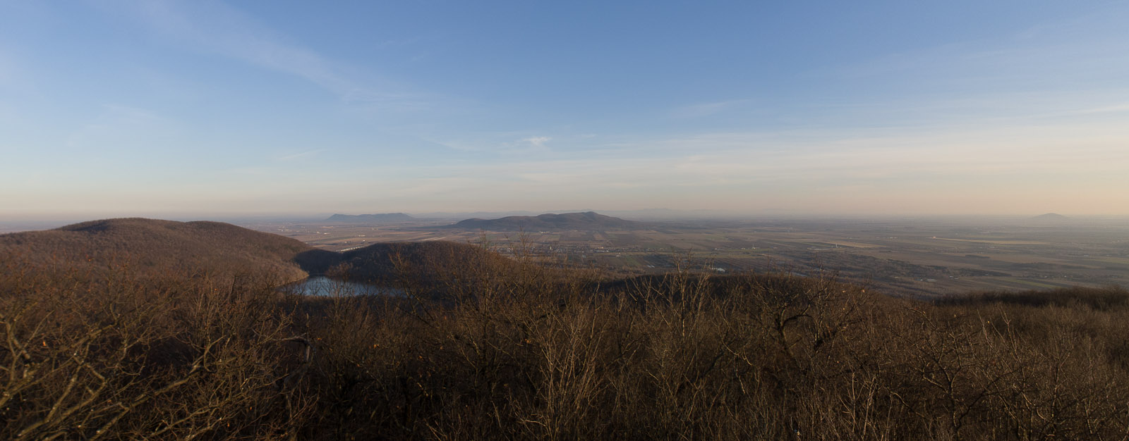 Four of the Monteregian Hills in the late fall: Mont Saint-Hilaire (foreground), Mont Yamaska (left), Rougemont (center), and Mont Saint-Grégoire (far right). Hertel Lake is visible among the peaks of Mont Saint-Hilaire.